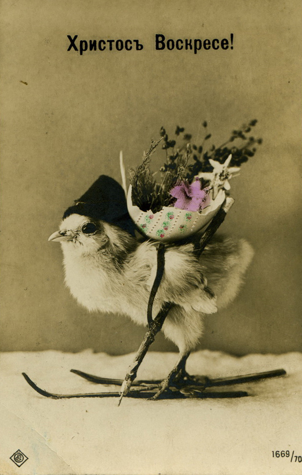 Old Russian Easter Postcard